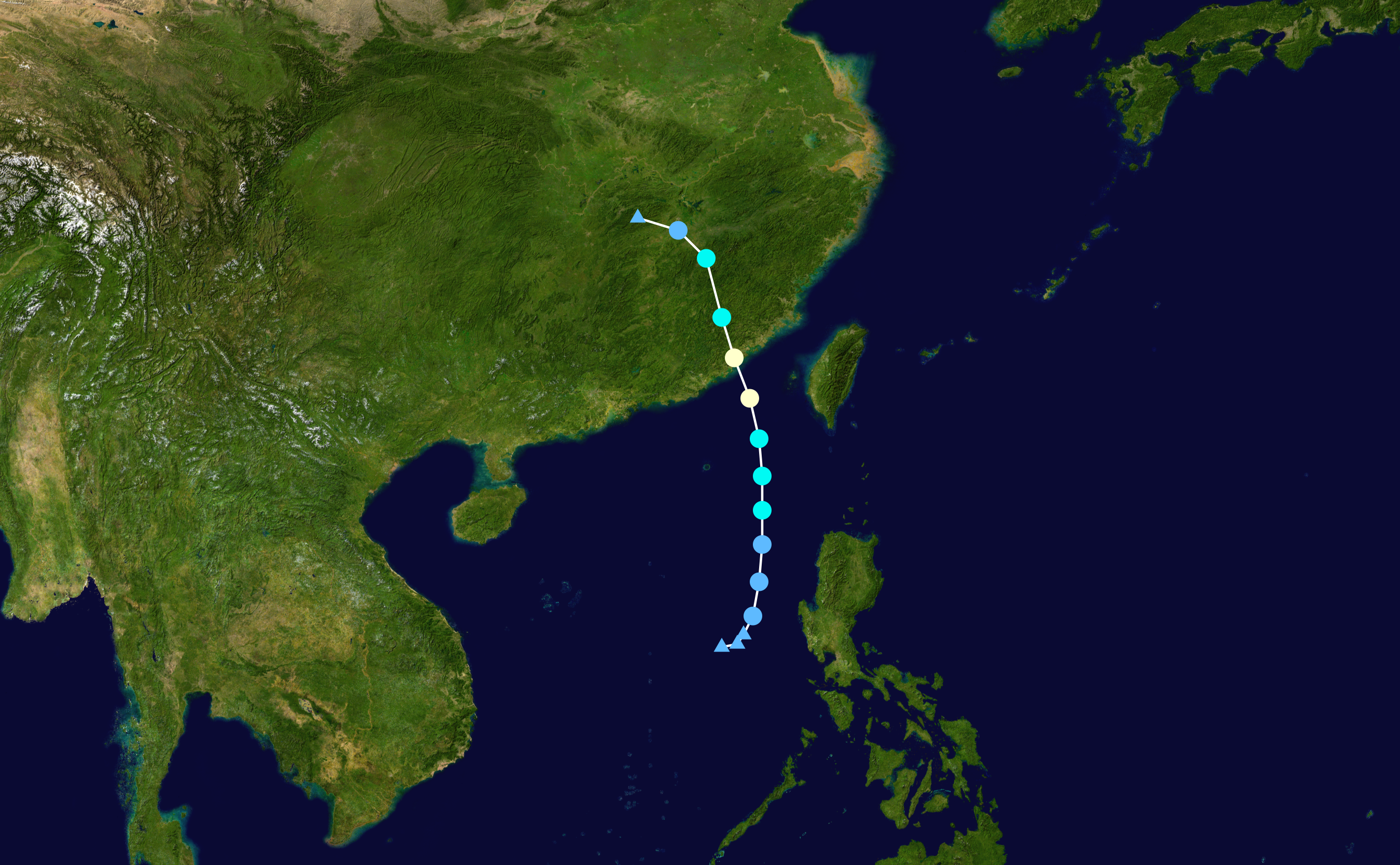 Track map of Severe Tropical Storm Mekkhala of the 2020 Pacific typhoon season. The points show the location of the storm at 6-hour intervals. The colour represents the storm's maximum sustained wind speeds as classified in the Saffir–Simpson scale (see below), and the shape of the data points represent the nature of the storm, according to the legend below. Saffir–Simpson scale Tropical depression≤38 mph≤62 km/h Category 3111–129 mph178–208 km/h Tropical storm39–73 mph63–118 km/h Category 4130–156 mph209–251 km/h Category 174–95 mph119–153 km/h Category 5≥157 mph≥252 km/h Category 296–110 mph154–177 km/h Unknown Storm type Tropical cyclone Subtropical cyclone Extratropical cyclone / Remnant low / Tropical disturbance / Monsoon depression